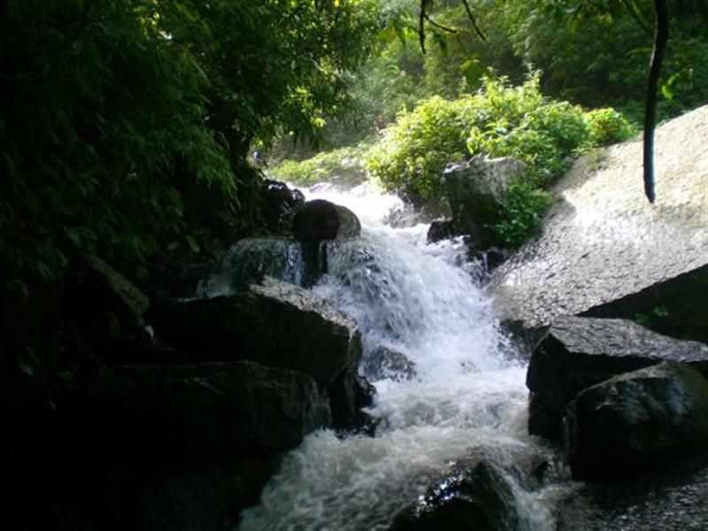 A small brook gurgling down the slope of the hills in Manipur